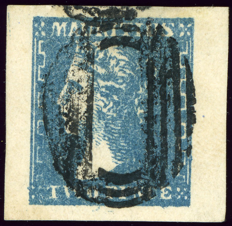 Two pence of Mauritius, litho issue December 1859, slate-blue. SG43. Cert. B.P.A.